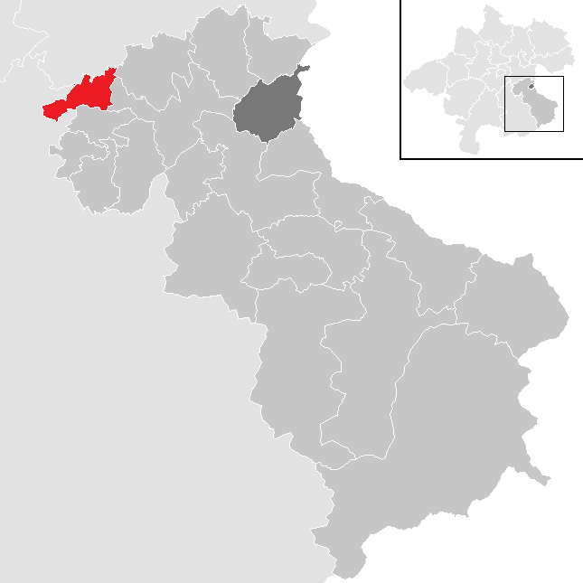 district Steyr-Land